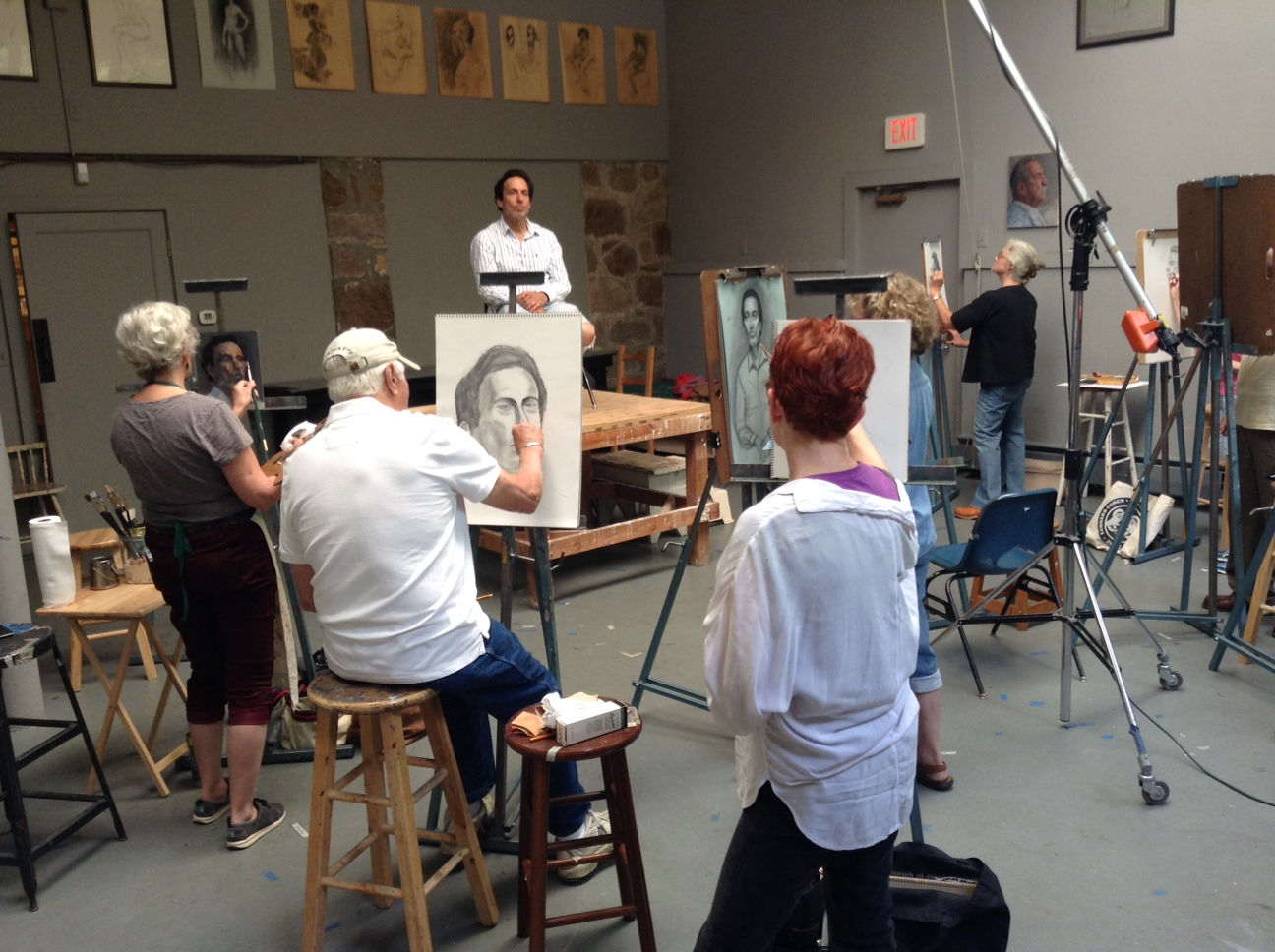 Art Class in session at Lyme Art Association in Old Lyme